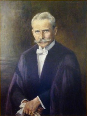 Portrait of Ernst von Stern (1859-1924)